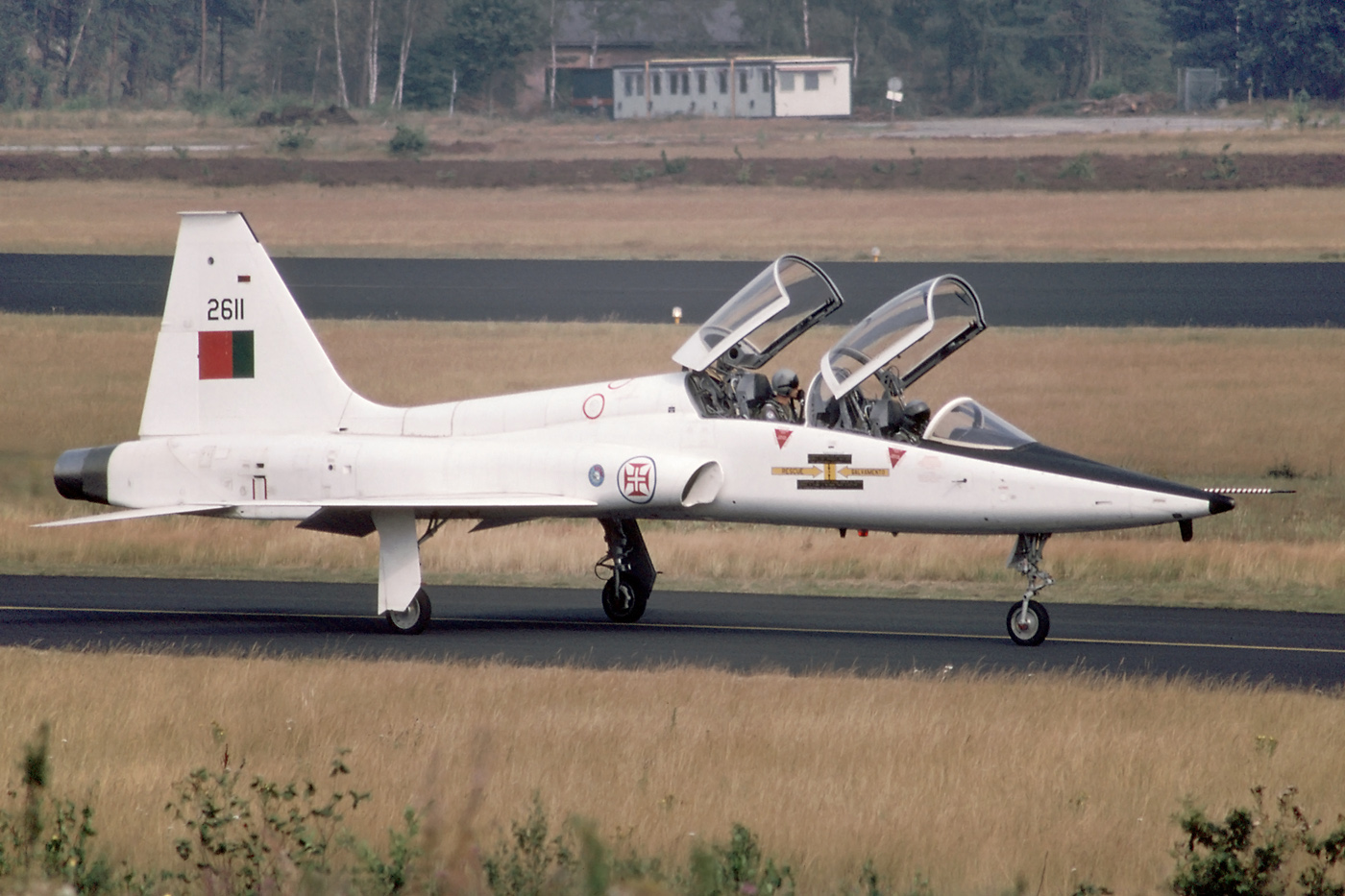 Nice visitors at Soesterberg in August 1990. After a hot, grass scorching summer.